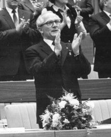 Erich Honecker in 1981